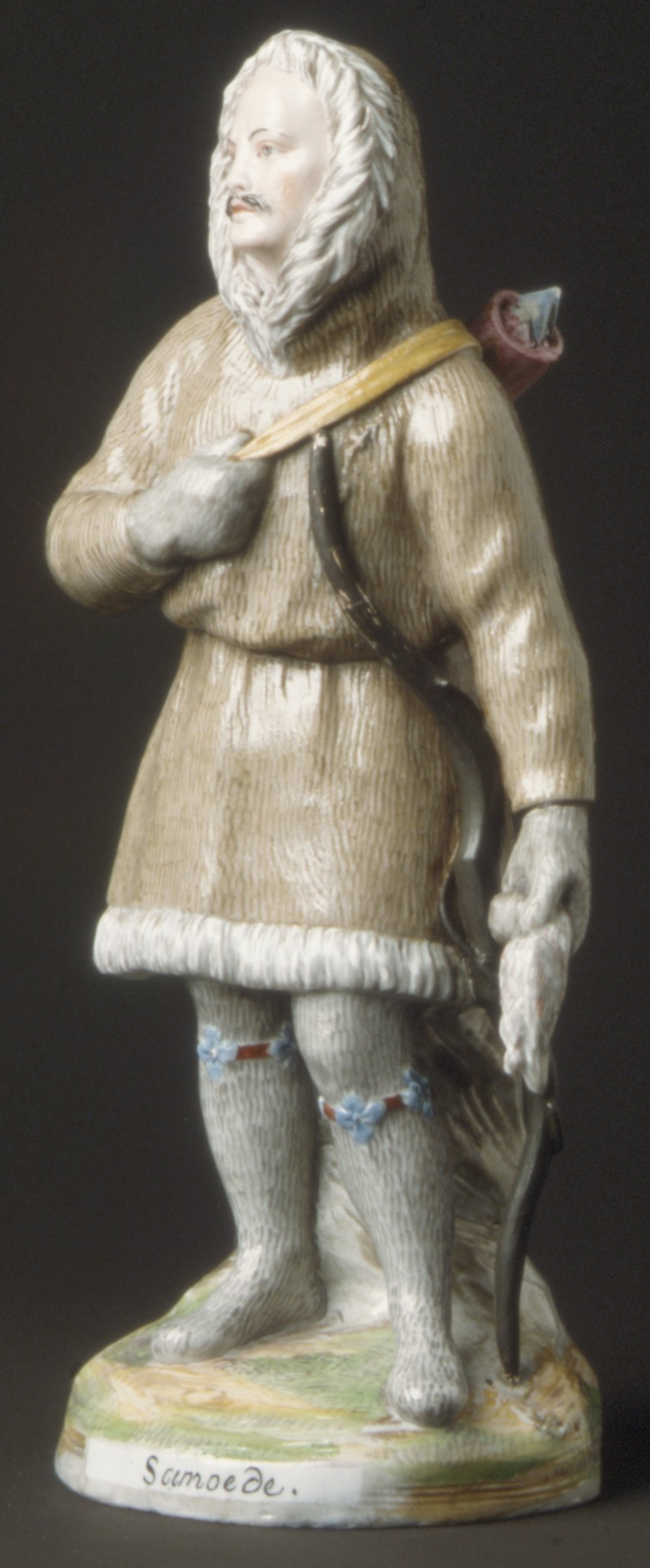 Russian, St. Petersburg; Figure; Ceramics-Porcelain